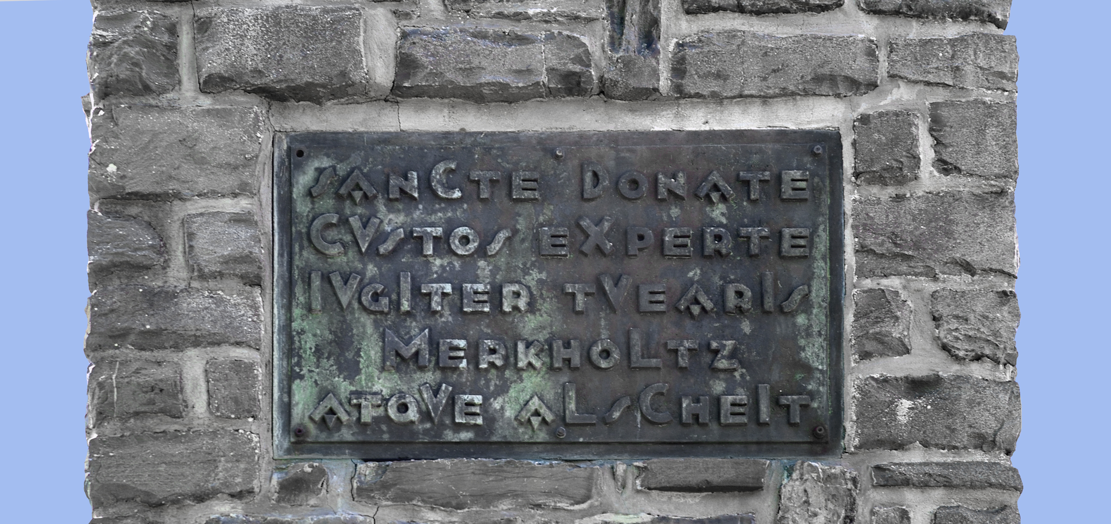 Plaque of the Saint-Donatus-monument between Merkholtz and Alscheid, Luxembourg.